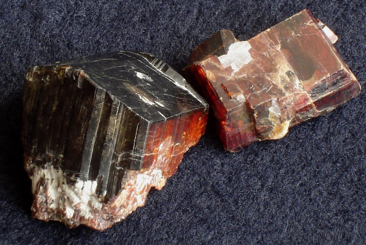 Tantalite-(Mn) (formaly known as Manganotantalite) (MnTa2O6) from Alto do Giz,RN,Brazil. Two crystals (average size=3x4cm)